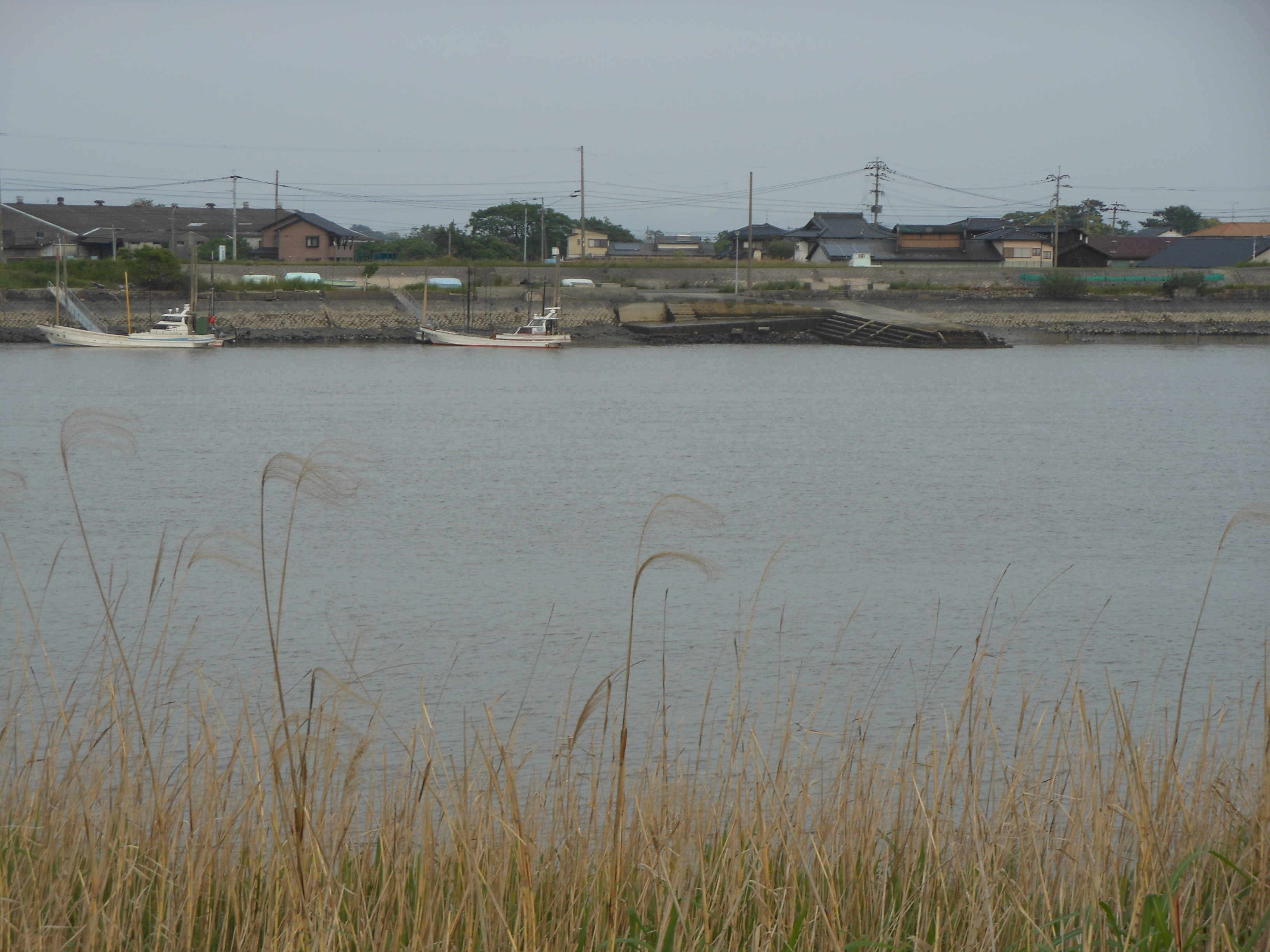 Ōnojima fishery port facing the Hayatsue River, in Ōno-jima Island in Ōkawa, Fukuoka, Japan.